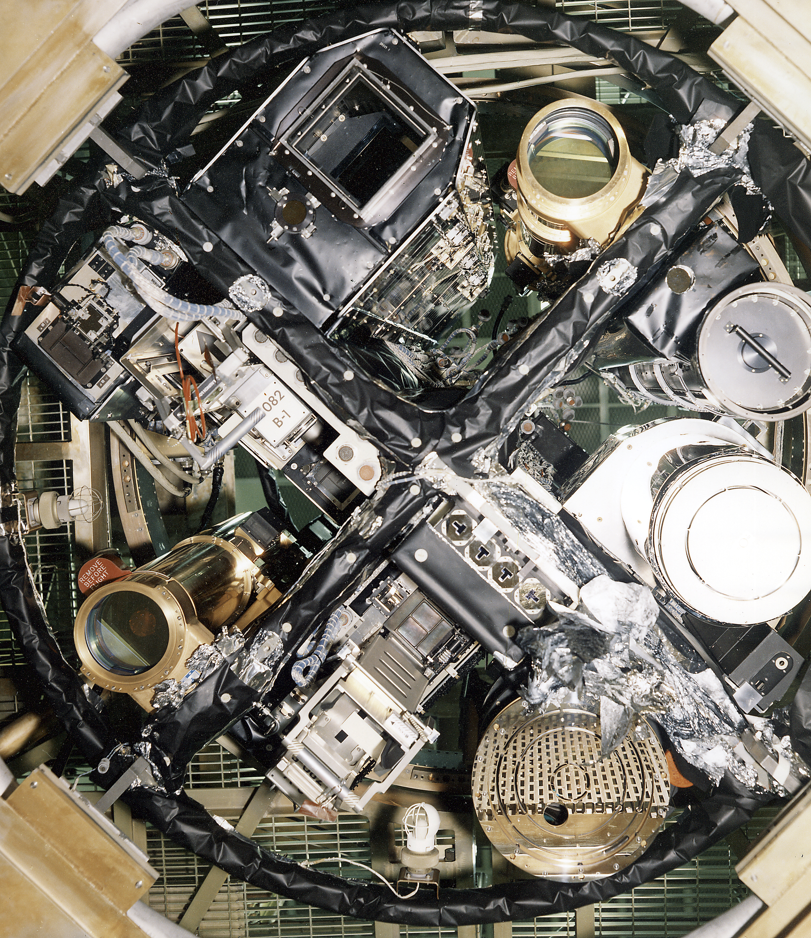 The Apollo Telescope Mount (ATM) was designed and developed by the Marshall Space Flight Center and served as the primary scientific instrument unit aboard Skylab (1973-1979). The ATM contained eight complex astronomical instruments designed to observe the Sun over a wide spectrum from visible light to x-rays. This image depicts the sun end and spar of the ATM flight unit showing individual telescopes. All solar telescopes, the fine Sun sensors, and some auxiliary systems are mounted on the spar, a cruciform lightweight perforated metal mounting panel that divides the canister lengthwise into four equal compartments. The spar assembly was nested inside a cylindrical canister that fit into a complex frame named the rack, and was protected by the solar shield.